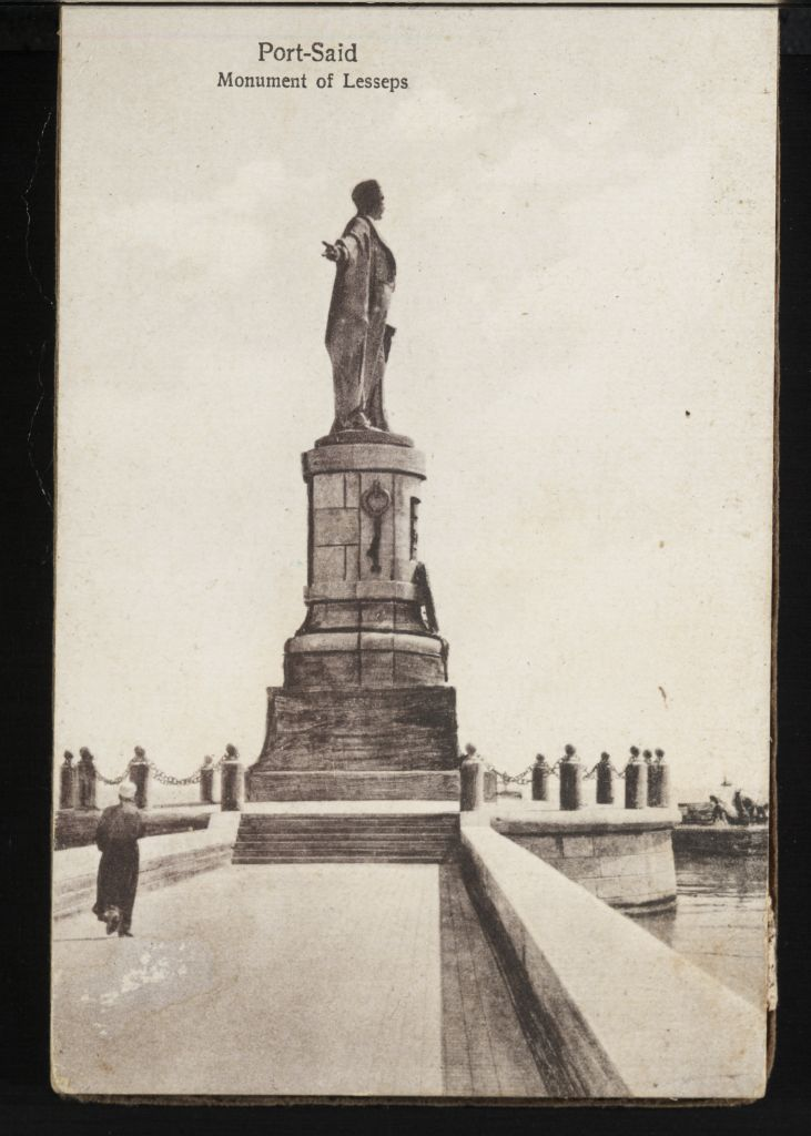 Large statue on a pedestal, looking toward the right